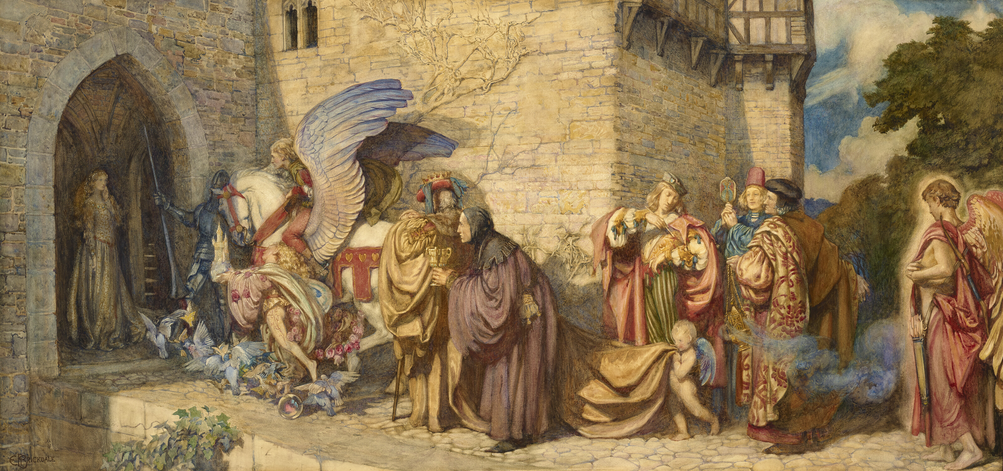 Love and his Counterfeits -1904 Pencil and watercolor 66.04 x 133.35 cm (26" x 52½") Private collection